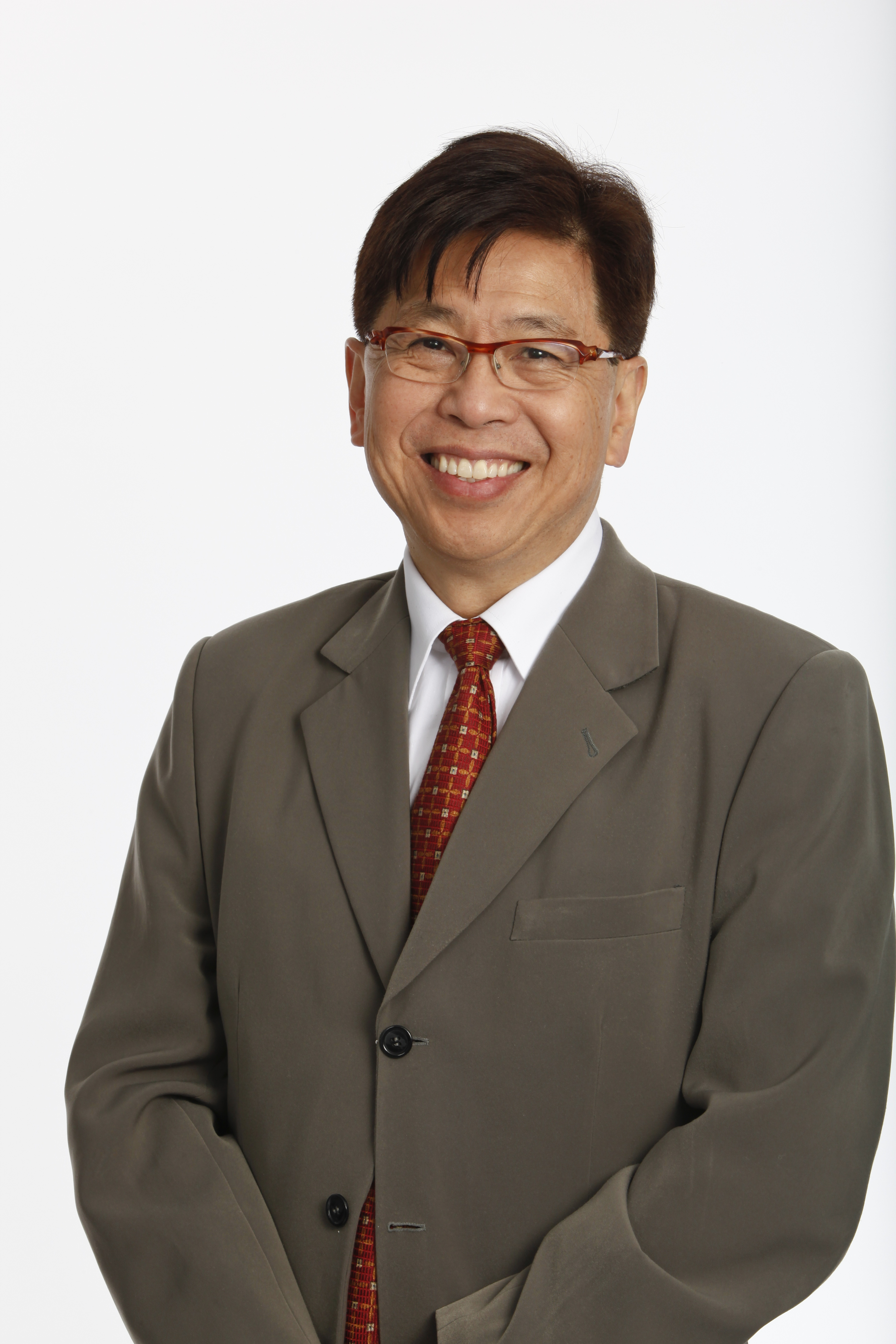 Jackson Laboratory photo of Edison T. Liu, M.D., president and CEO